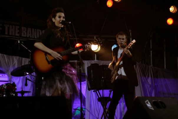 MY foto of group